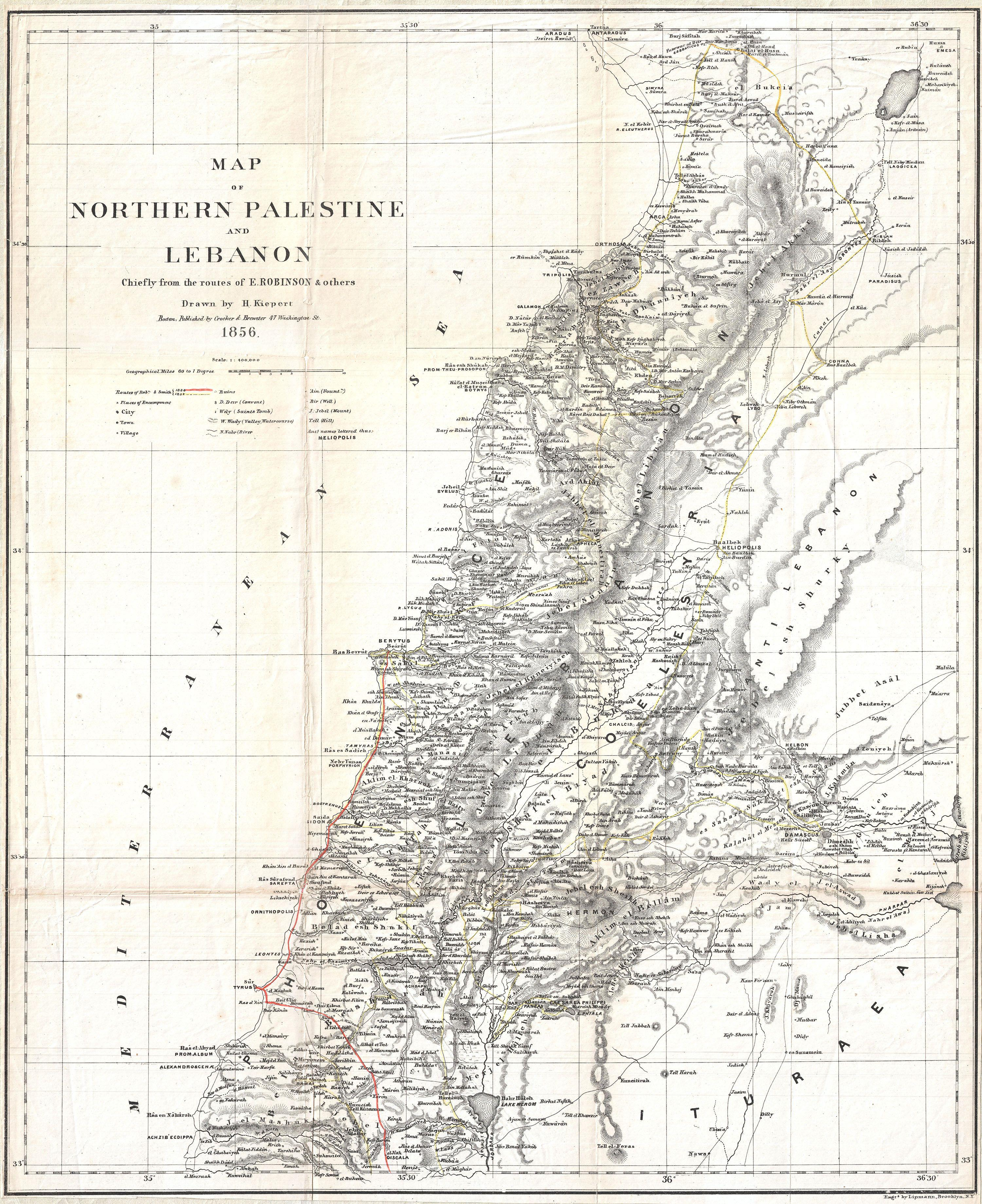 An uncommon map of Lebanon by the classical scholar and cartographer H. Kiepert. Covers all of modern day Lebanon as well as parts of adjacent Israel, Palestine, Jordan and Syria. This map is based on the 1838 travels of E. Robinson and E. Smith in this area. Robinson and Smith, in search of unidentified Biblical sites, traveled throughout the Middle East but most particularly in modern day Israel, Palestine, Lebanon, Egypt, Jordan, and Syria. The duo used local traditions as well as established Biblical scholarship to identify a number of important sites. This map is largely the result of their research and work. Their route, shown in red, leads Israel northwards to Tyre then skirts the coast to Beiruit. Most place names are transliterations of Arabic though biblical references are included where appropriate. This map was drawn by Heinrich Kiepert, a noted expert on historical cartography, for Robinson’s important work Biblical Researches in Palestine, and in the Adjacent Regions.